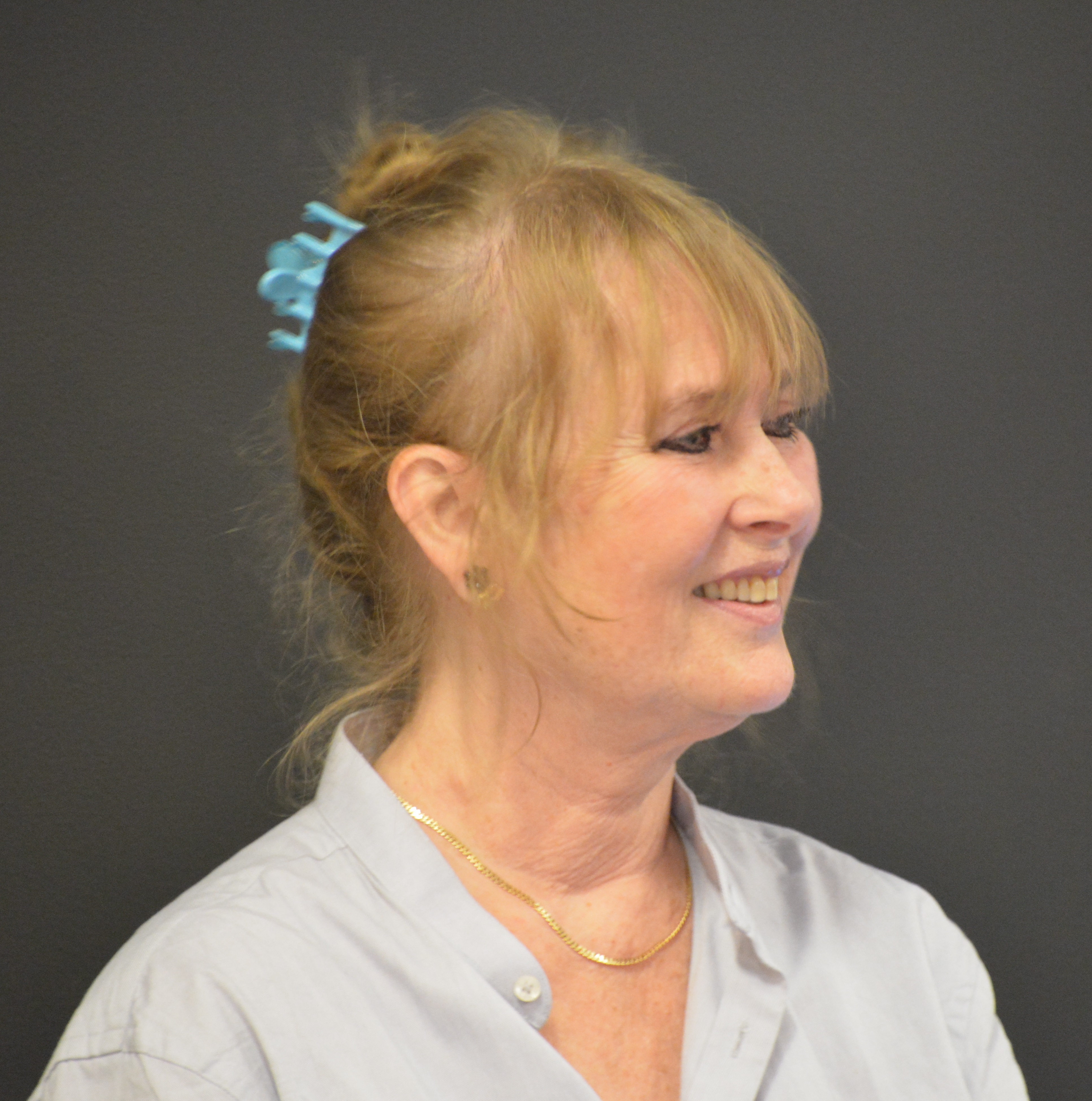 Marie-Louise Ekman på Bokmässan i Göteborg 2015